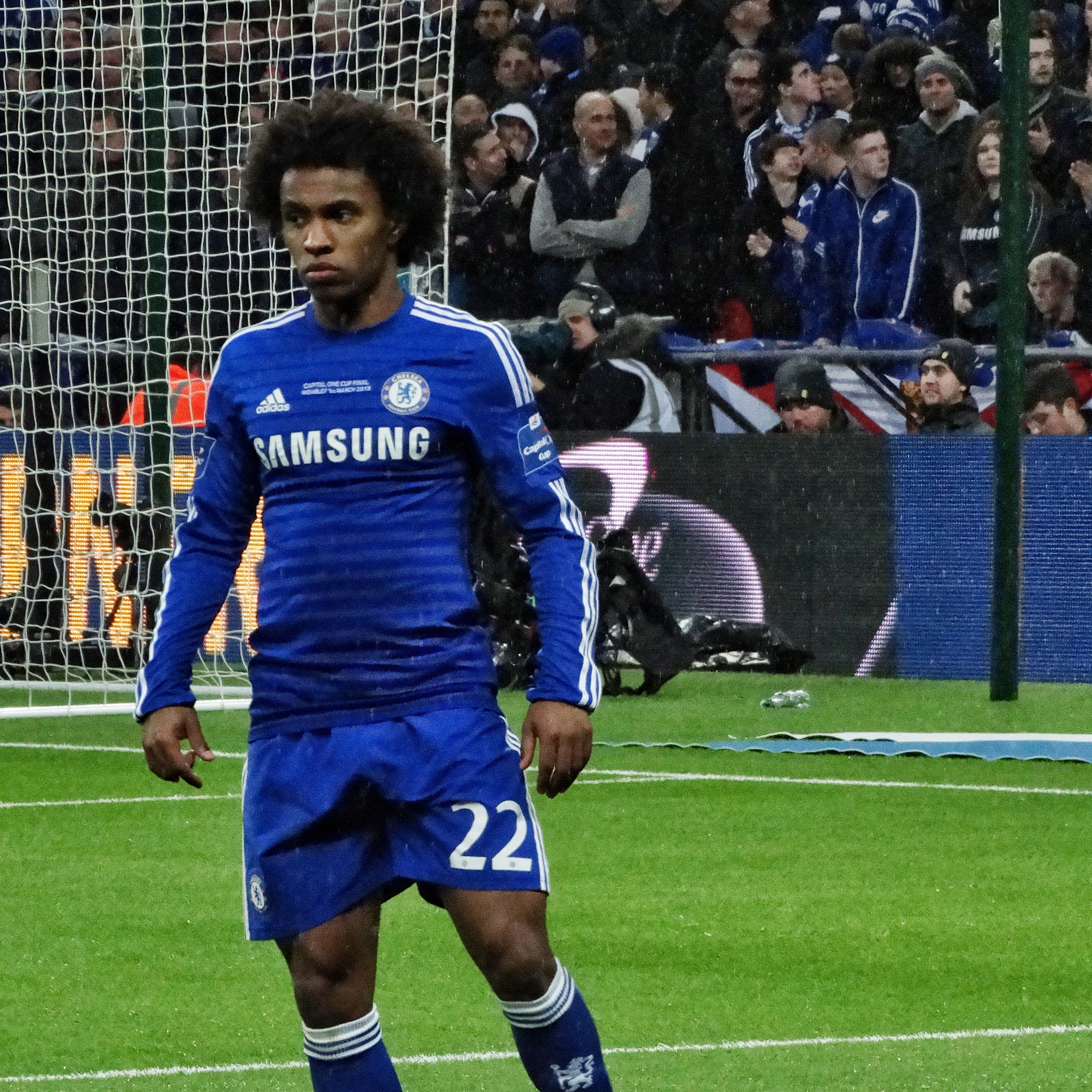 Chelsea 2 Spurs 0 Capital One Cup winners 2015